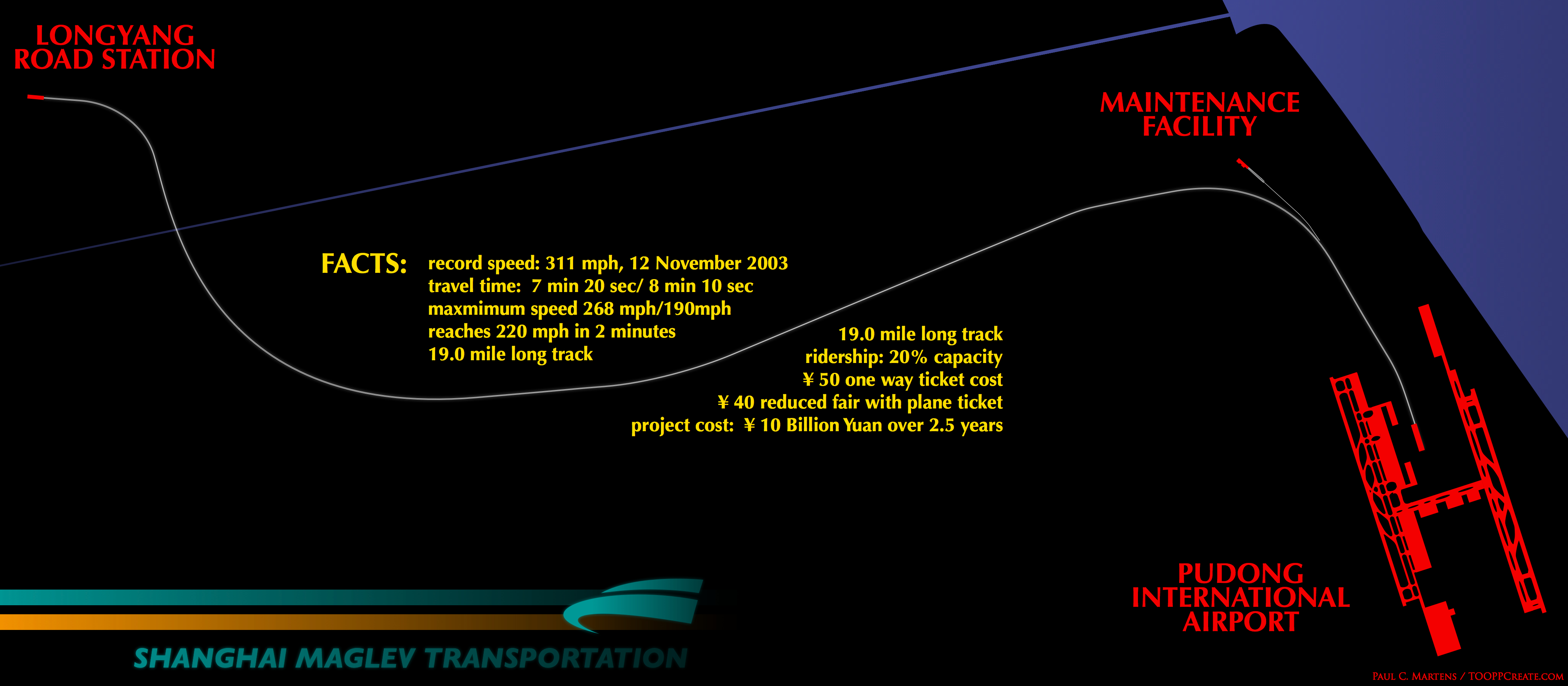 Layout of Shanghai Maglev track